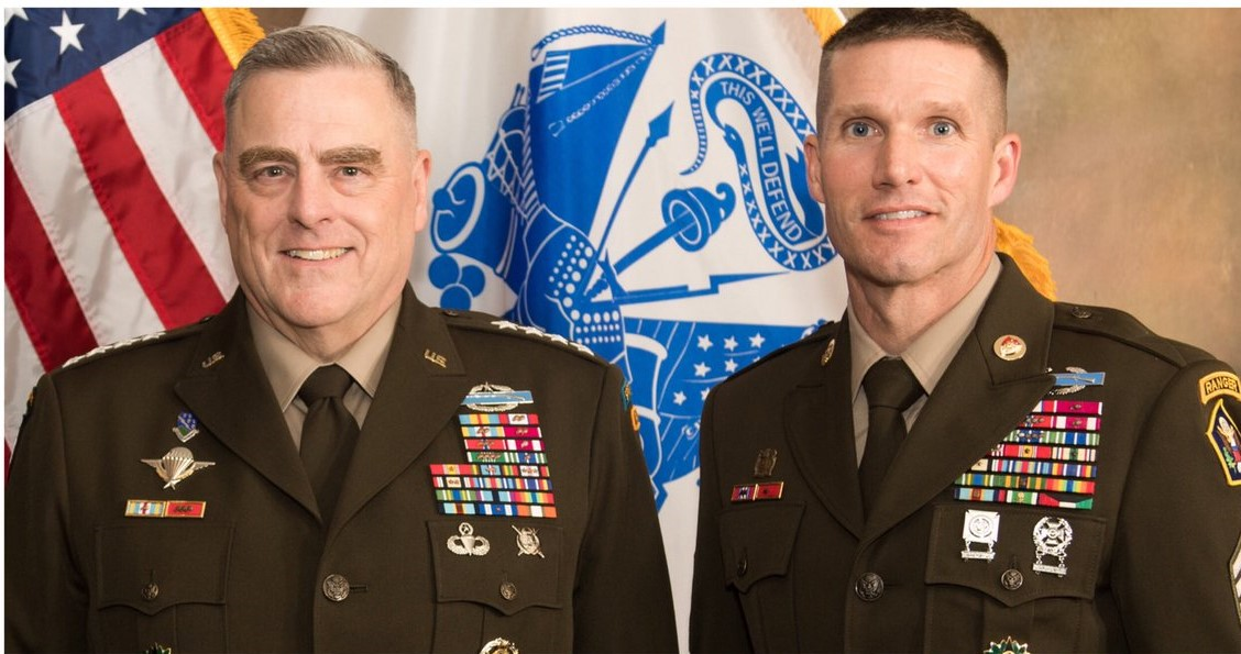 New uniform of U.S. Army